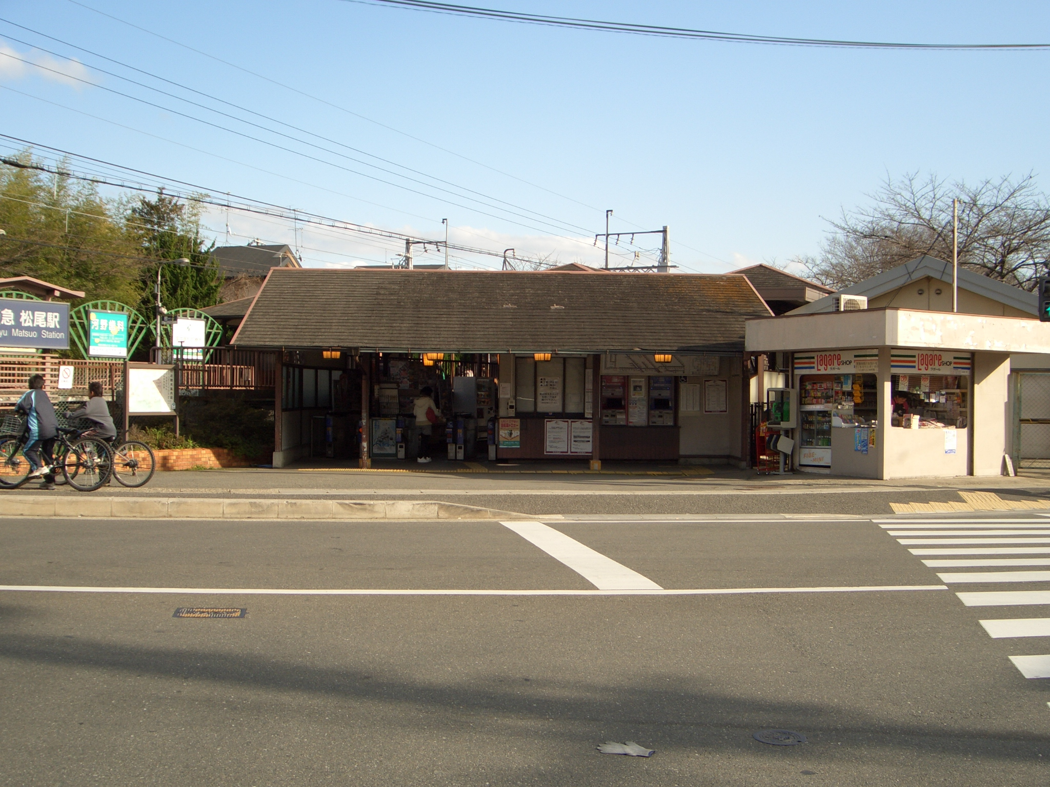 Matsuo-taisha Station